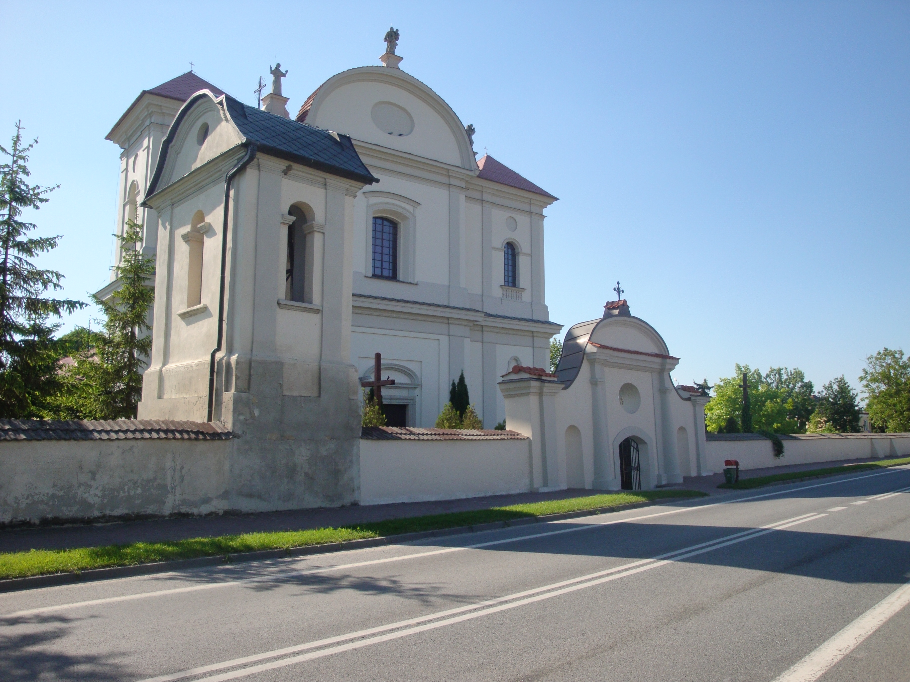 Former franciscan church in Józefów (Poland, Lublin voivodship), today parish church. Built in 18 century.